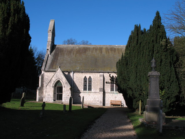 St Margaret's, High Hutton Small church in 13th century style and built in 1856. Stands adjacent to the grounds of the Georgian Manor House.